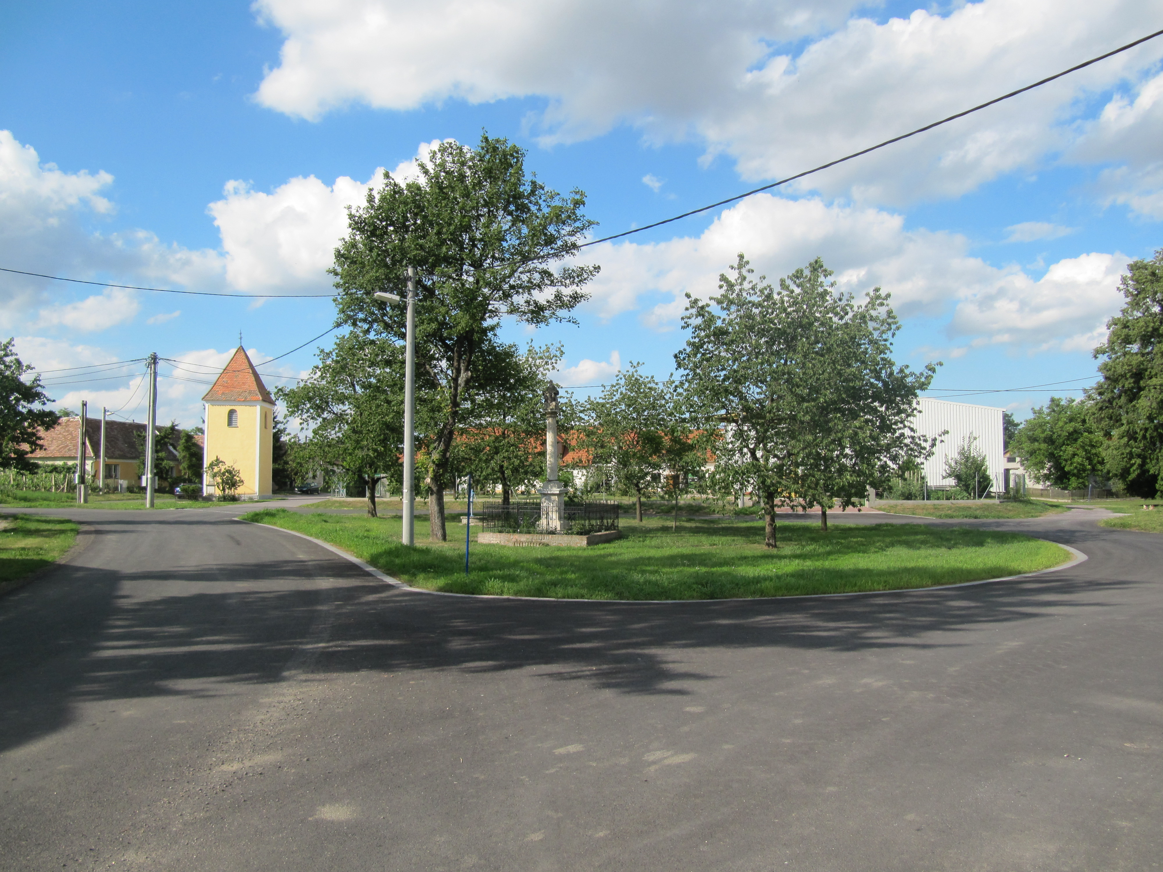 Slup in Znojmo District, Czech Republic, part Oleksovičky. Common.